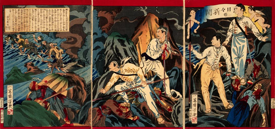 Battle of Stonegate, Taiwan